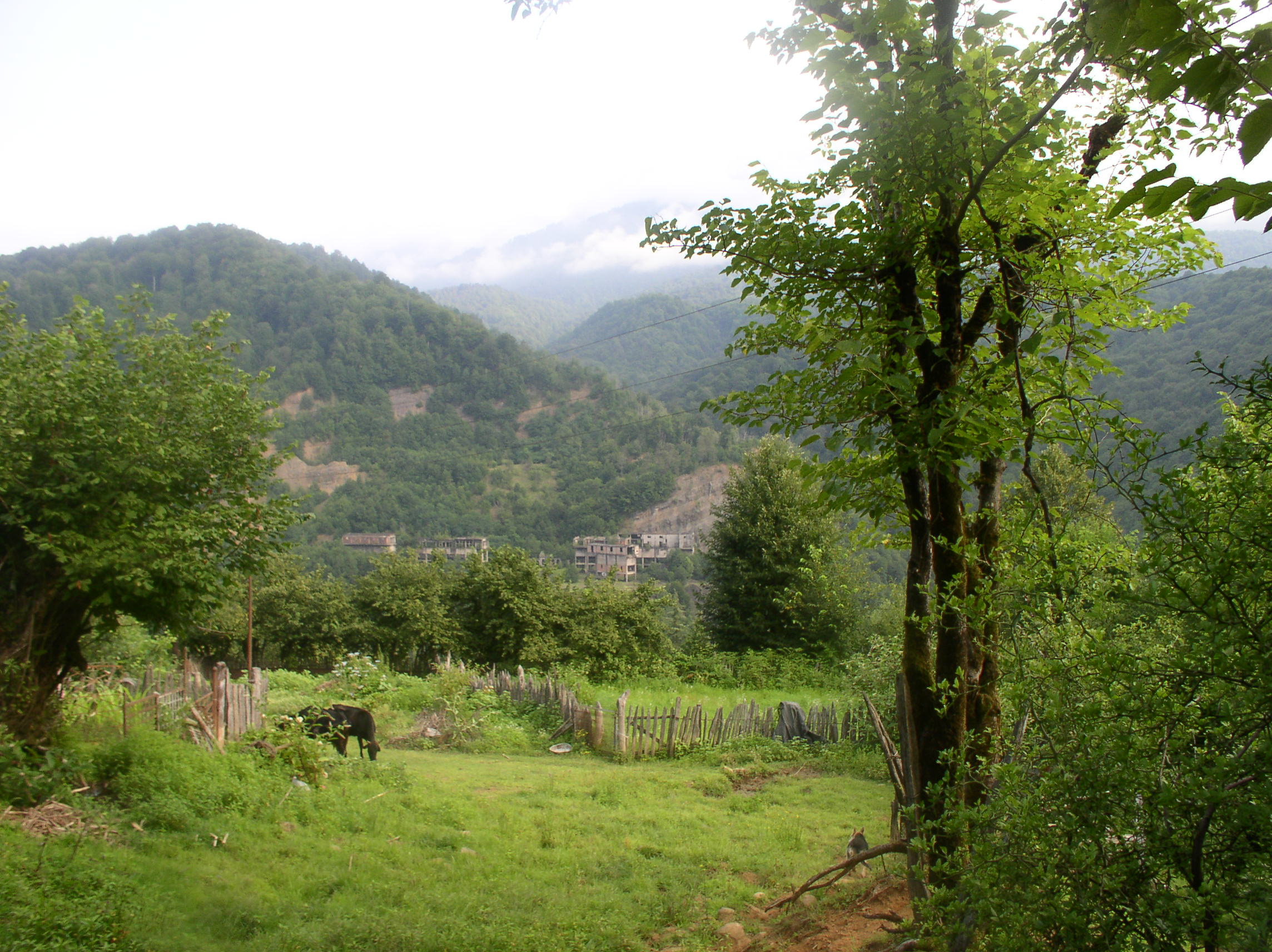 Mountains near the town of Tquarchal in Abkhazia; coal-mining railroad terminals are also visible